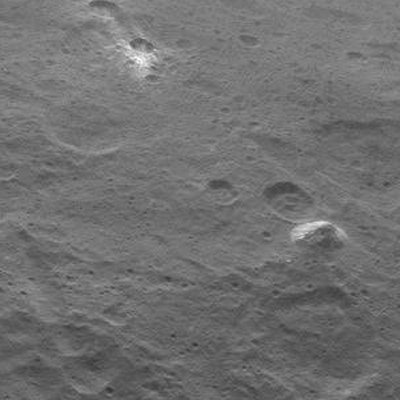 PIA19574: Dawn Survey Orbit Image 6 - CONTEXT - CROP/ENLARGE UPLOADER NOTES (Drbogdan (talk) 17:09, 5 July 2015 (UTC)): CONTEXT IMAGE - shows a "pyramid-shaped" mountain (3 miles high) and surrounding area on Ceres, a dwarf planet visited by the Dawn spacecraft. IMAGE CROP/ENLARGE - the original image 1024x1024/133KB was cropped to 300x296/16.0KB and then enlarged to 400x395/24.6KB (via JASC Paint Shop Pro v6.02). ORIGINAL IMAGE DESCRIPTION: This image, taken by NASA's Dawn spacecraft, shows dwarf planet Ceres from an altitude of 2,700 miles (4,400 kilometers). The image, with a resolution of 1,400 feet (410 meters) per pixel, was taken on June 6, 2015. Dawn's mission is managed by JPL for NASA's Science Mission Directorate in Washington. Dawn is a project of the directorate's Discovery Program, managed by NASA's Marshall Space Flight Center in Huntsville, Alabama. UCLA is responsible for overall Dawn mission science. Orbital ATK, Inc., in Dulles, Virginia, designed and built the spacecraft. The German Aerospace Center, the Max Planck Institute for Solar System Research, the Italian Space Agency and the Italian National Astrophysical Institute are international partners on the mission team. For a complete list of acknowledgments, For more information about the Dawn mission, visit